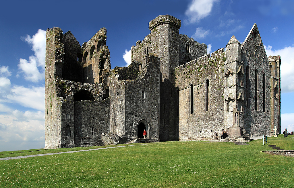 Rock of Cashel, Tipperary, Munster, Ireland. The view is of the cathedral and its attached castle on the Rock of Cashel. From the earliest of times, and before these buildings were erected, what is now the cathedral close was always a fortress. It was then the seat of Brian Boru, crowned High King of Ireland in 977, but in 1101 it was handed over to the church by Muircheartach O'Brien. Violence erupted on the Rock in 1647 when the Rock of Cashel was stormed by Lord Inchiquin's forces. During the conflict twenty clerics who had taken refuge there were killed within the castle, as were all the Irish Confederate troops.